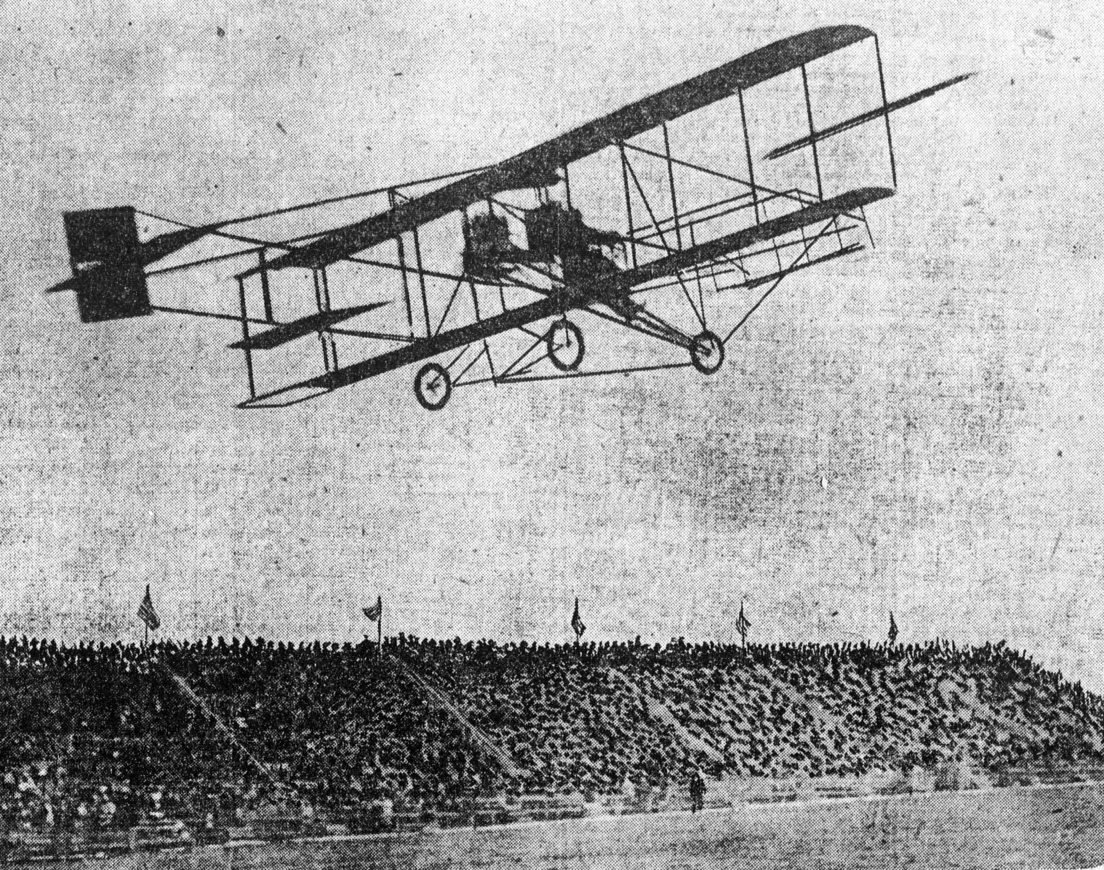 A Curtiss Machine biplane at a Los Angeles airshow in 1910